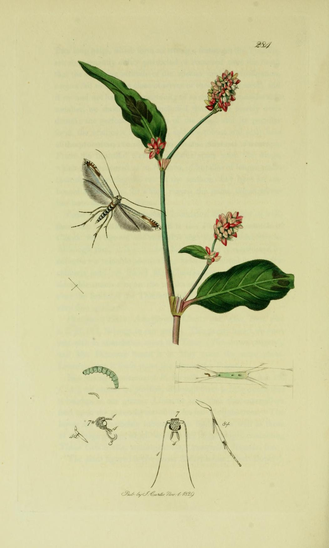 An illustration from British Entomology by John Curtis. Lepidoptera: Argyromiges autumnella Lyonetia (Argyromiges) clerkella (Autumnal Argyromiges).